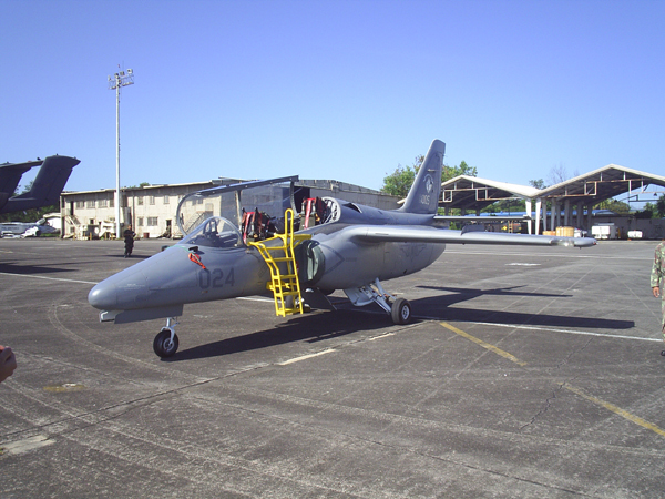 An S-211 operated by the 7th Tactical Fighter Squadron, Philippine Air Force.